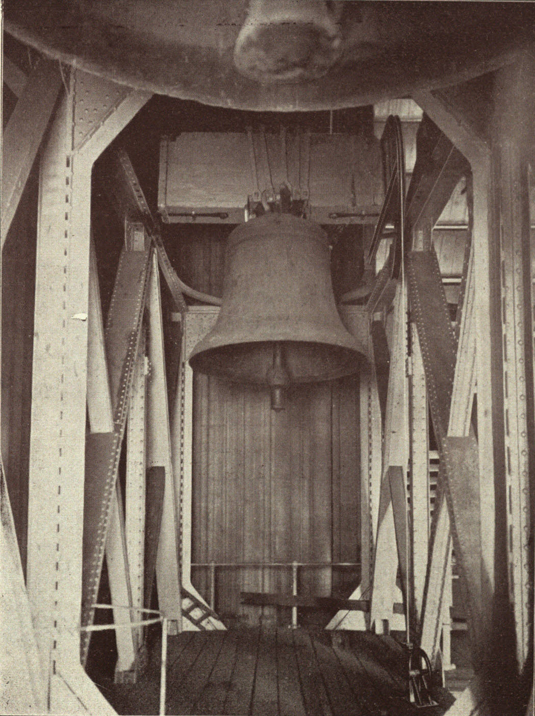 Cologne Cathedral: Speciosa bell, 1909.